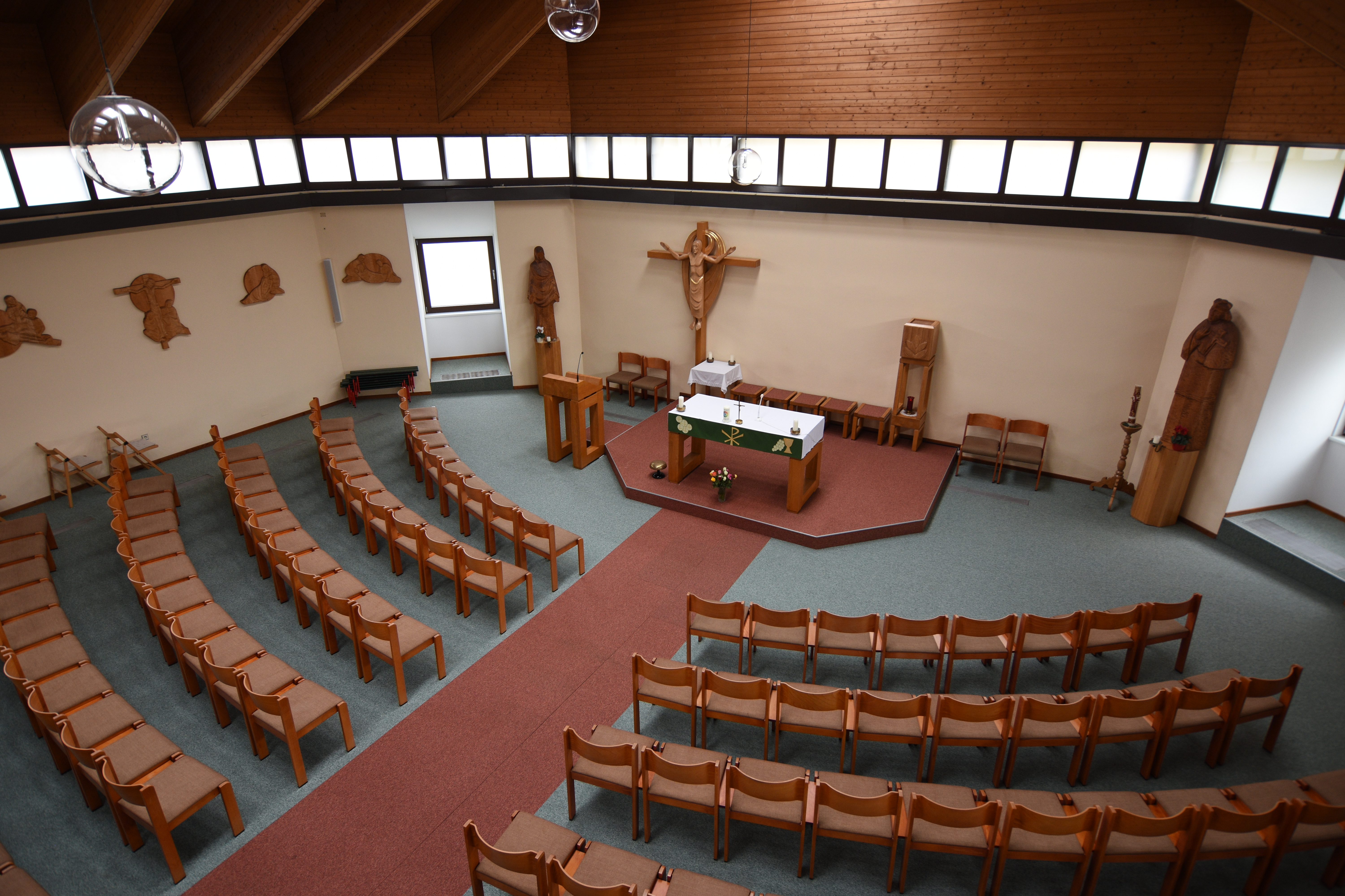 Holy Trinity Church (Kohfidisch) - Interior